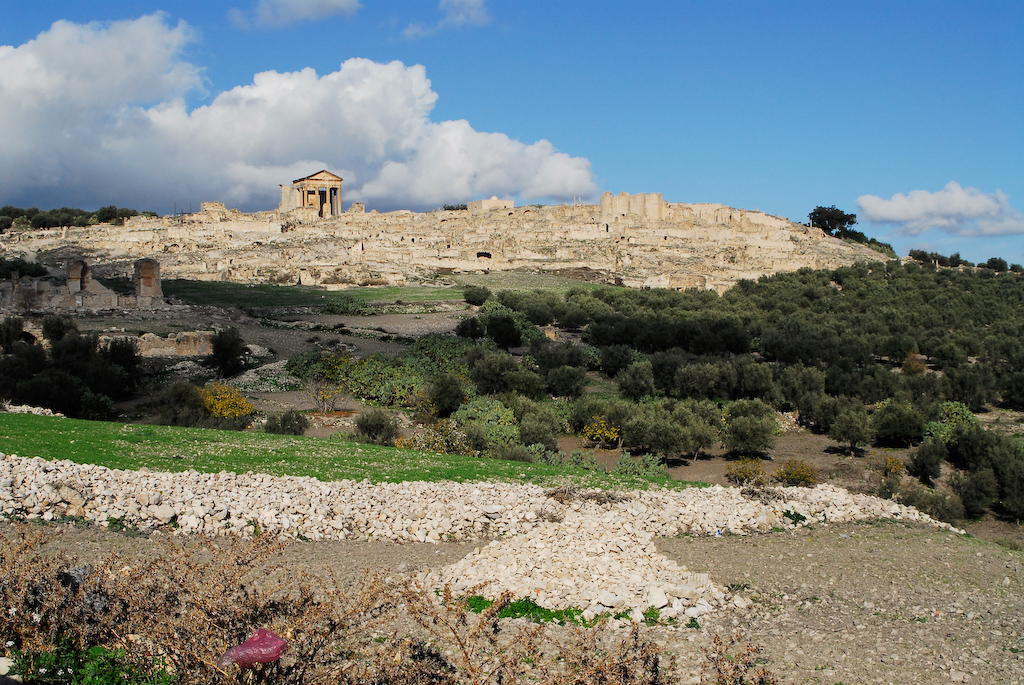 The remains of the Roman outpost at Dougga (Tunisia) are the largest and best-preserved of any Roman ruins outside of Europe, apparently.